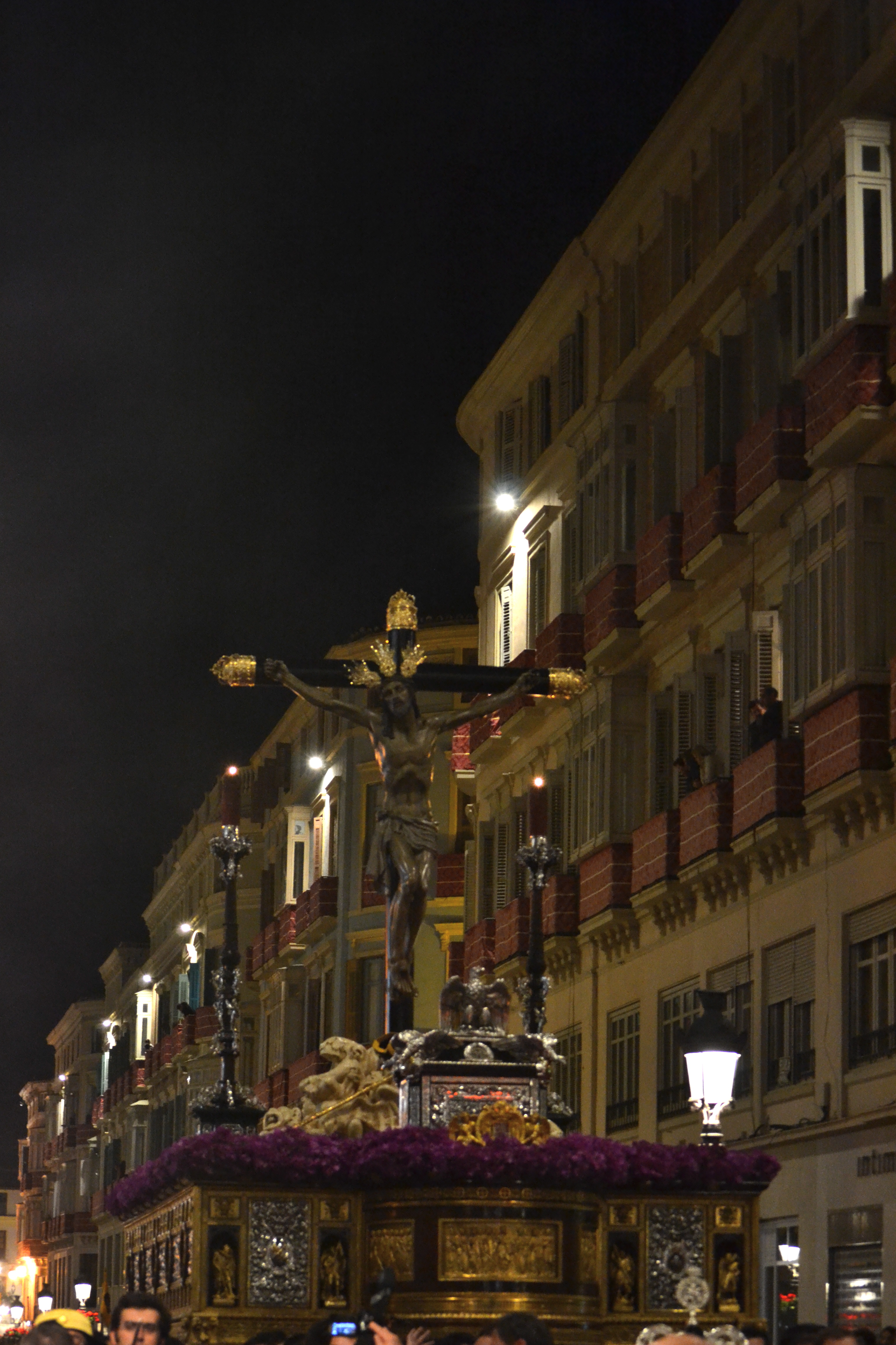 Stmo Cristo de la Expiración crossing Larios Street, Holy Week in Málaga, Spain.